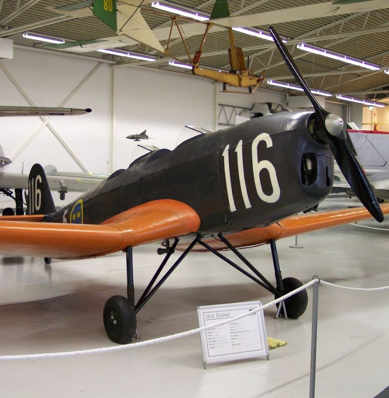 Klemm Kl 35, in Swedish Air Force designation SK 15